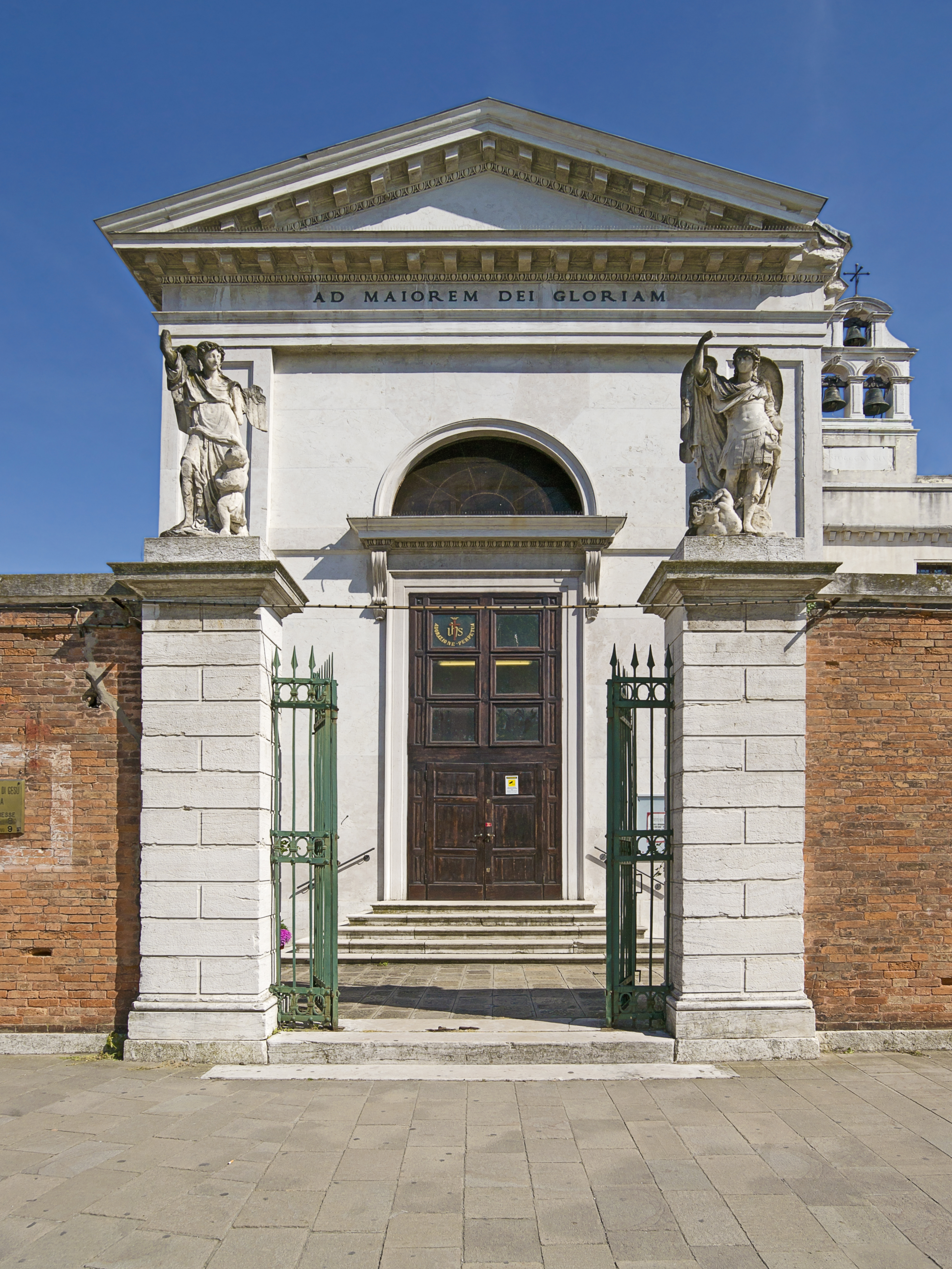 Church of Nome di Gesù in Venice - facade.